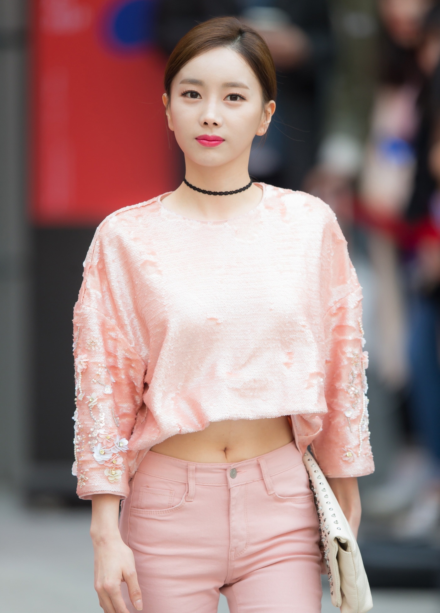 160326 16 F/W 서울패션위크 포토월